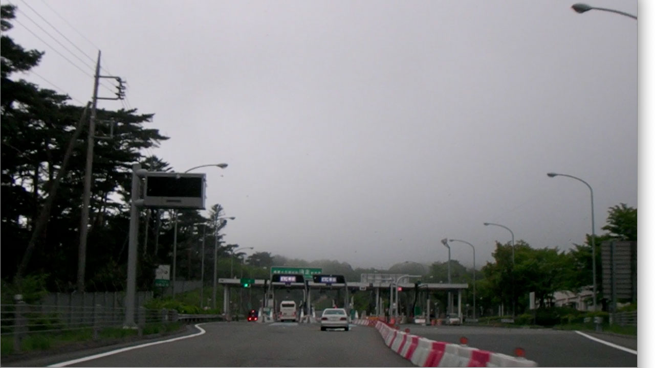 Subashiri Toll Gate, Higashi-Fuji-Goko-Road